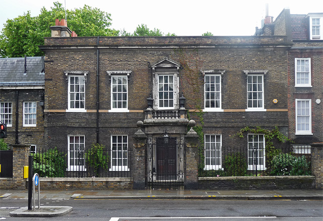 King's Road was heavily built up in the later C19th so Argyle House is a valuable survival. Built 1723 by Giacomo Leoni for John Pierene. Quite austere aside from the ornament to the door and window above. Fine gates between piers with ball finials too. Grade II* listed.